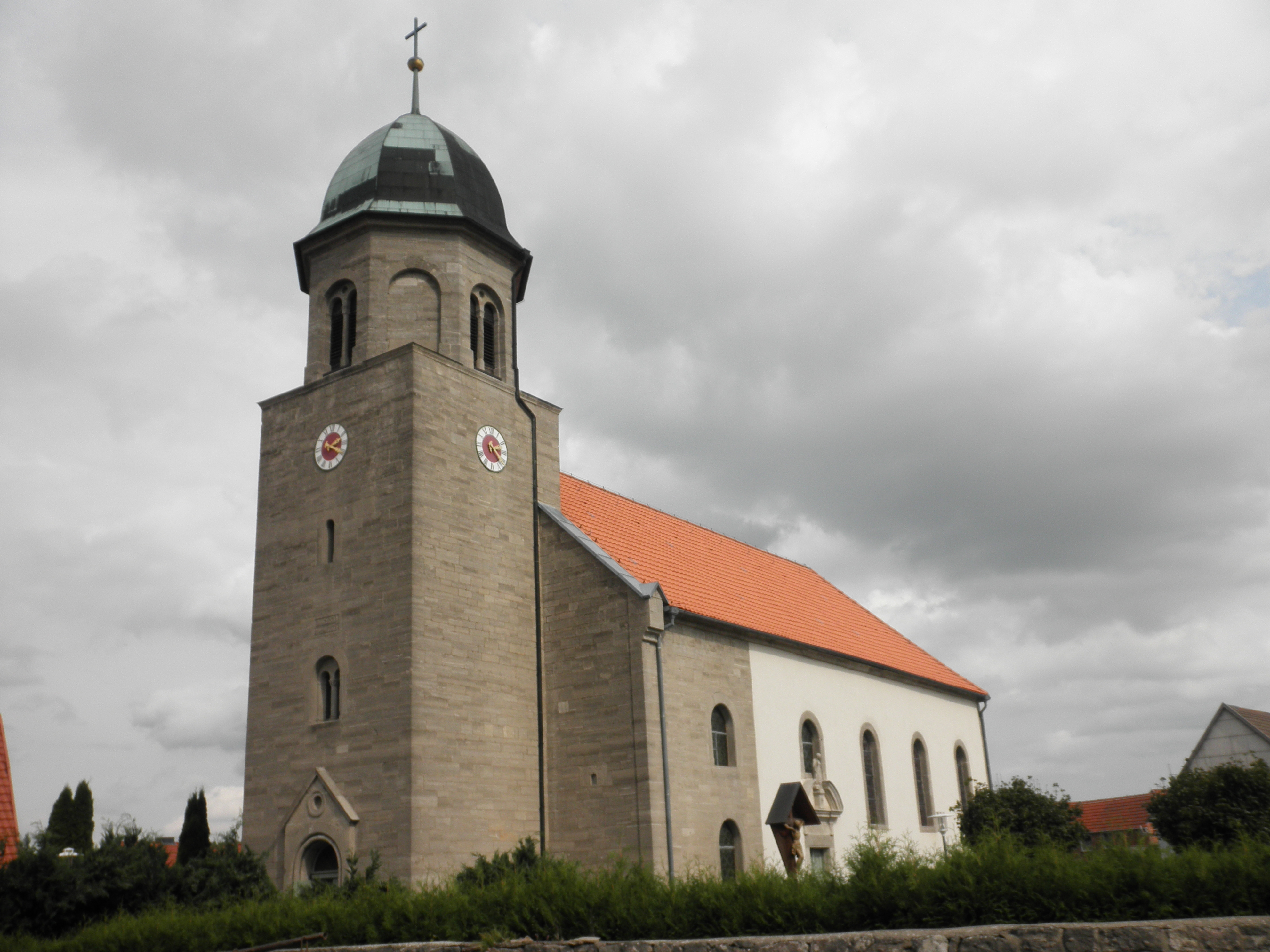 Church in Büttstedt in Thuringia